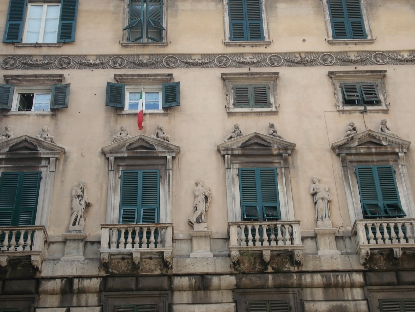 Cipriano Pallavicini Palace in Genova